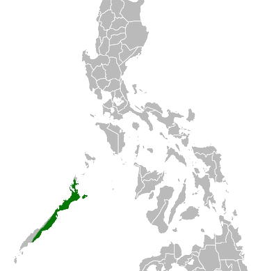 Siebenrockiella leytensis range map